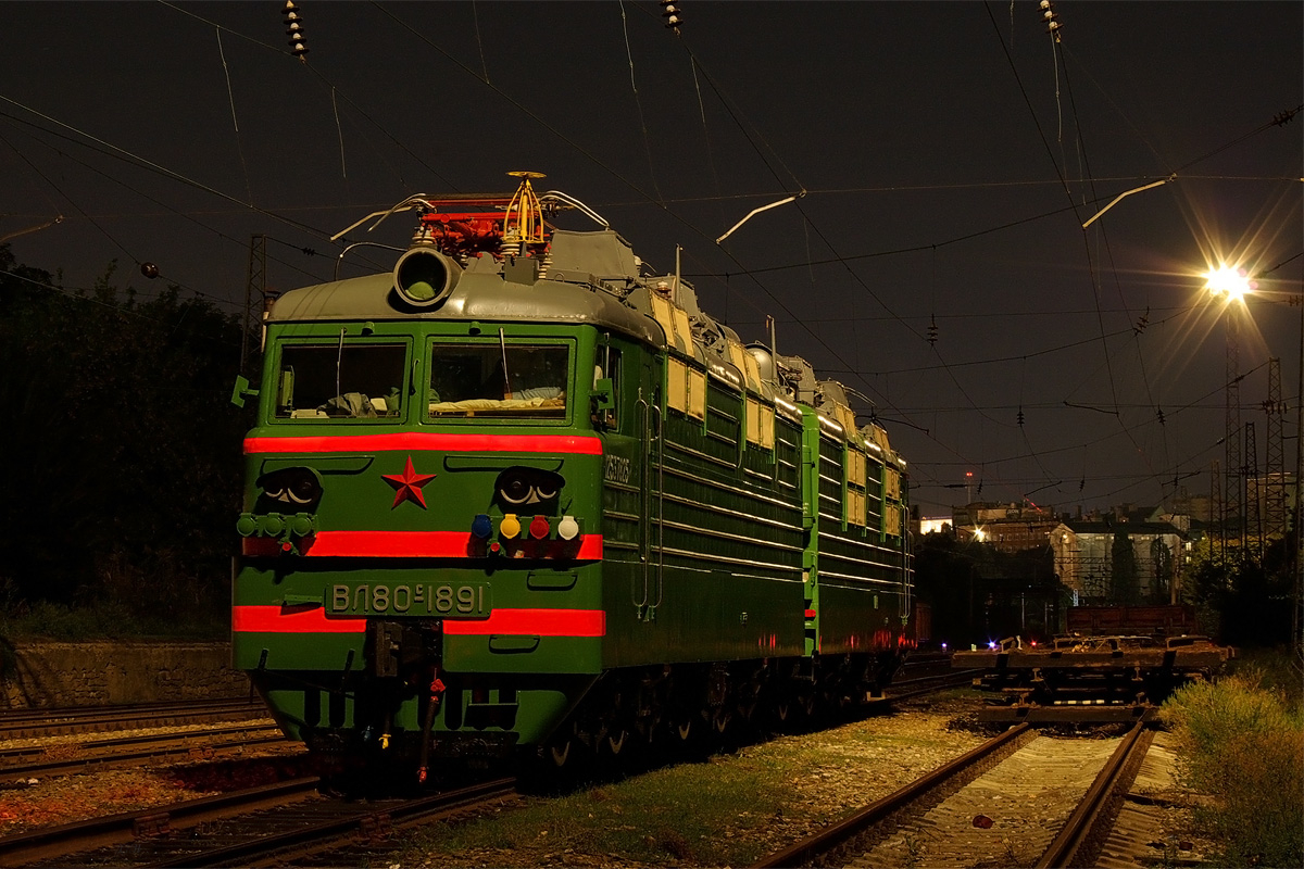 Electric locomotive VL80S-1891 in Rostov-na-Donu/Rostov-on-Don